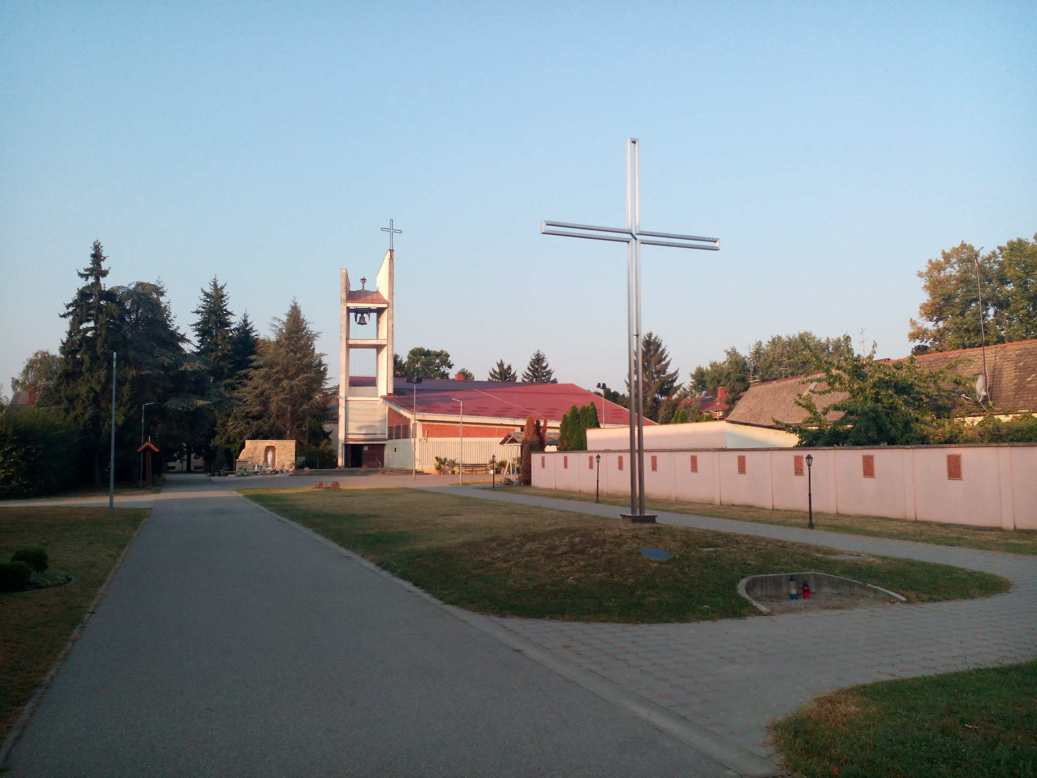 St. Joseph the Worker's Parish Church, Belišće.